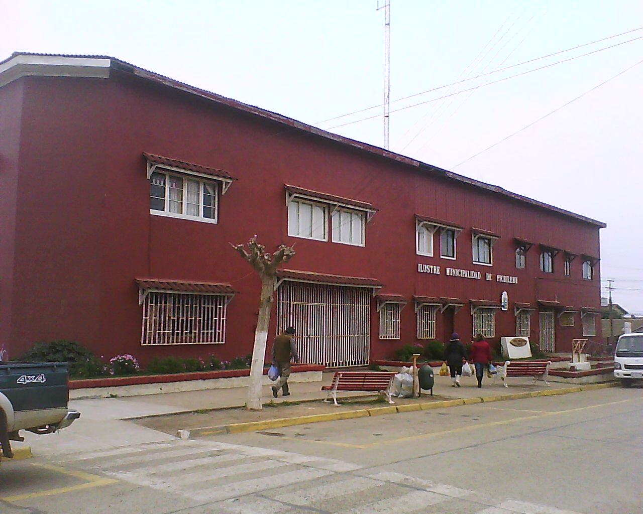 Pichilemu town hall